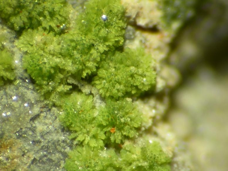 Arthurite Locality: Majuba Hill Mine (Mylar Mine), Antelope District, Pershing County, Nevada, USA (Locality at ) Field of view 4 mm. Specimen and photo Leon Hupperichs.